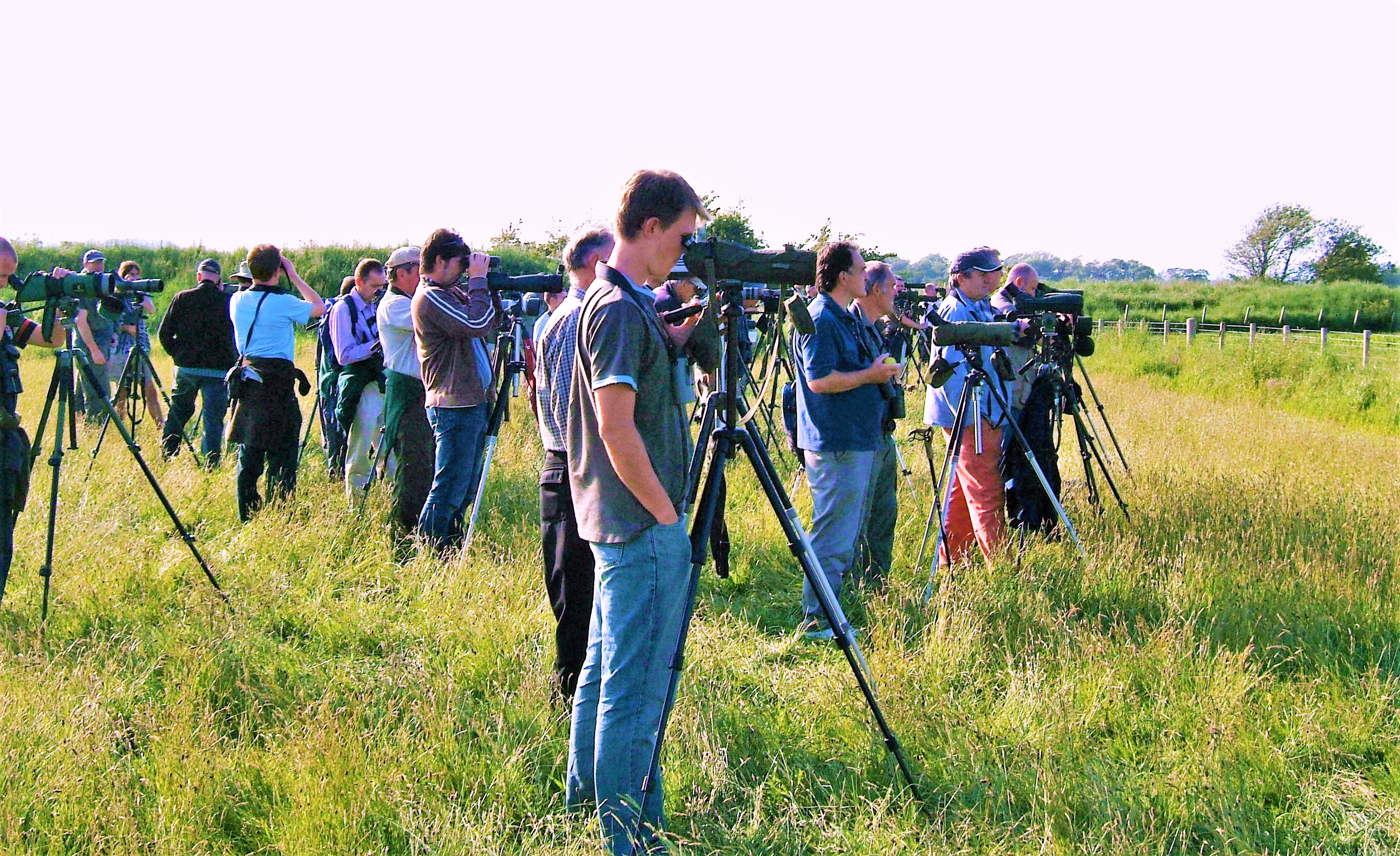 Birders at Caerlaverock, watching Britain's fifth White-tailed Lapwing